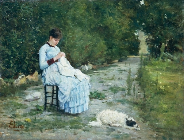 In Giardino